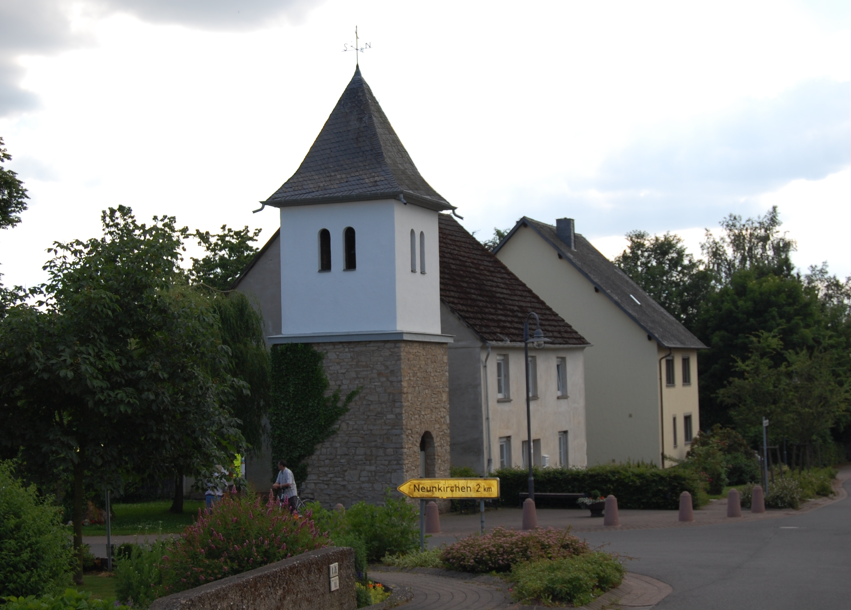 Village Talling in the Hunsrück landscape, Germany